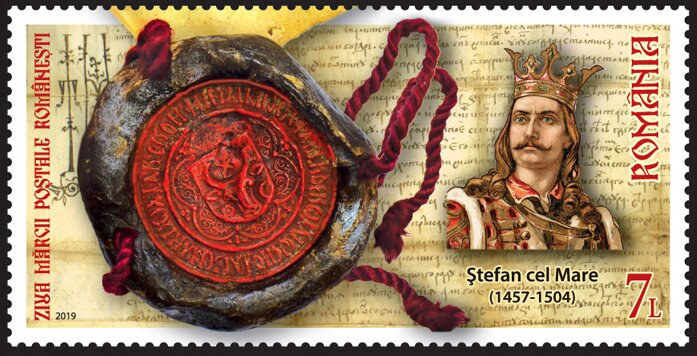 Royal-Seal-of-Steven-The-Great